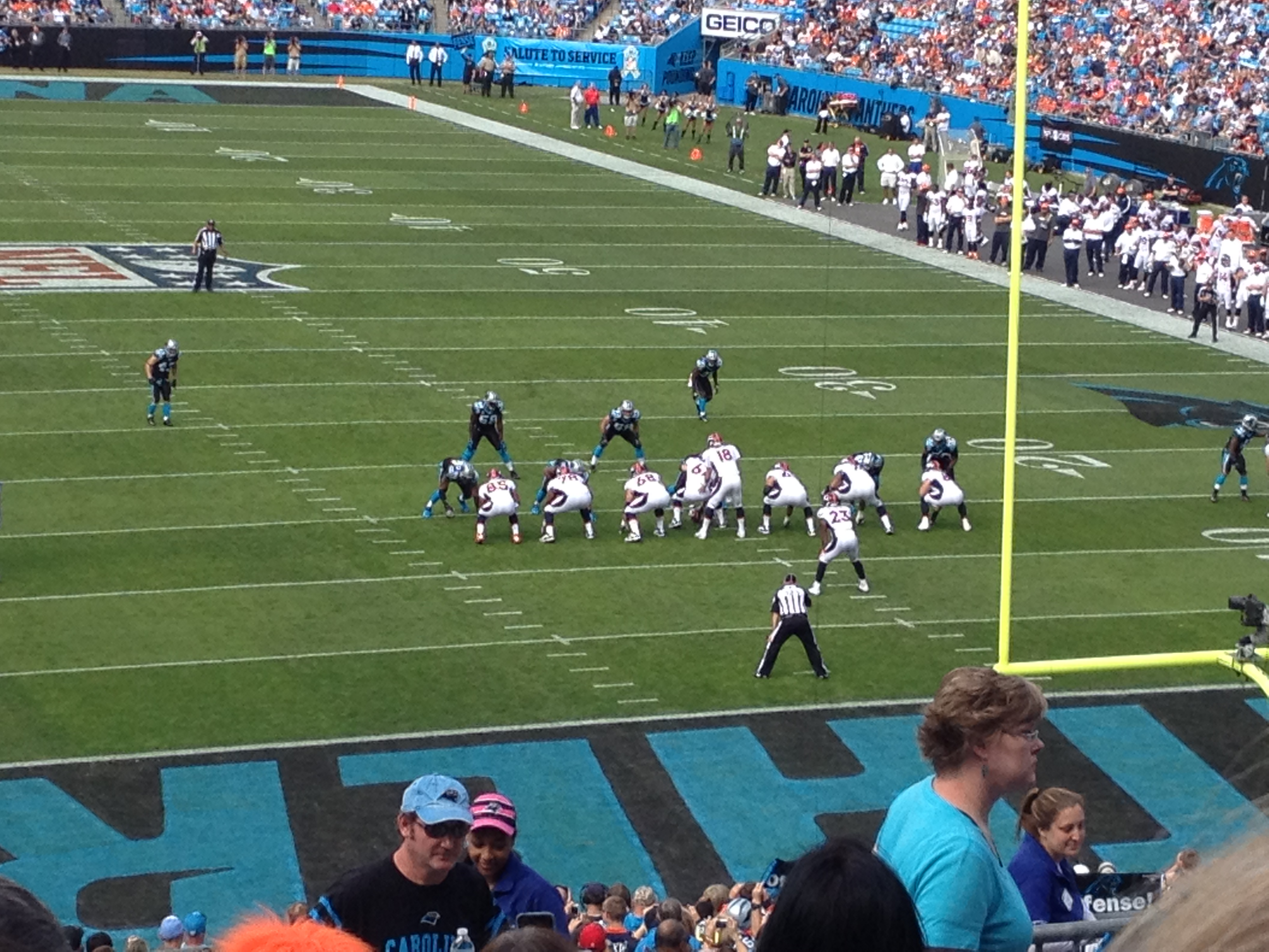 Peyton Manning during the 2012 season vs. the Carolina Panthers